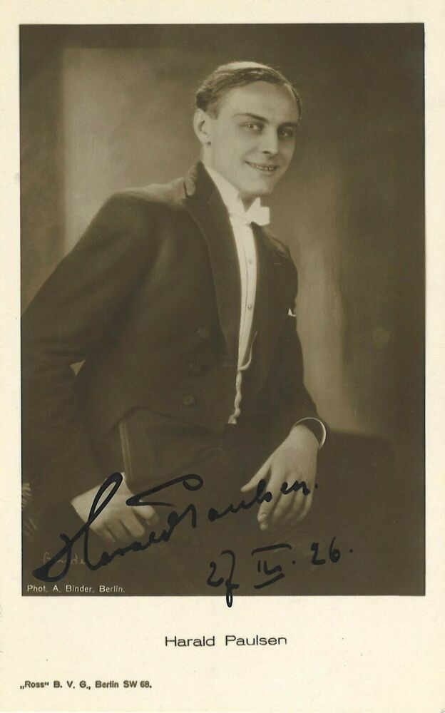 Autographed postcard portrait of German actor and director Harald Paulsen (26 August 1895 – 4 August 1954) by German photographer Alexander Binder.